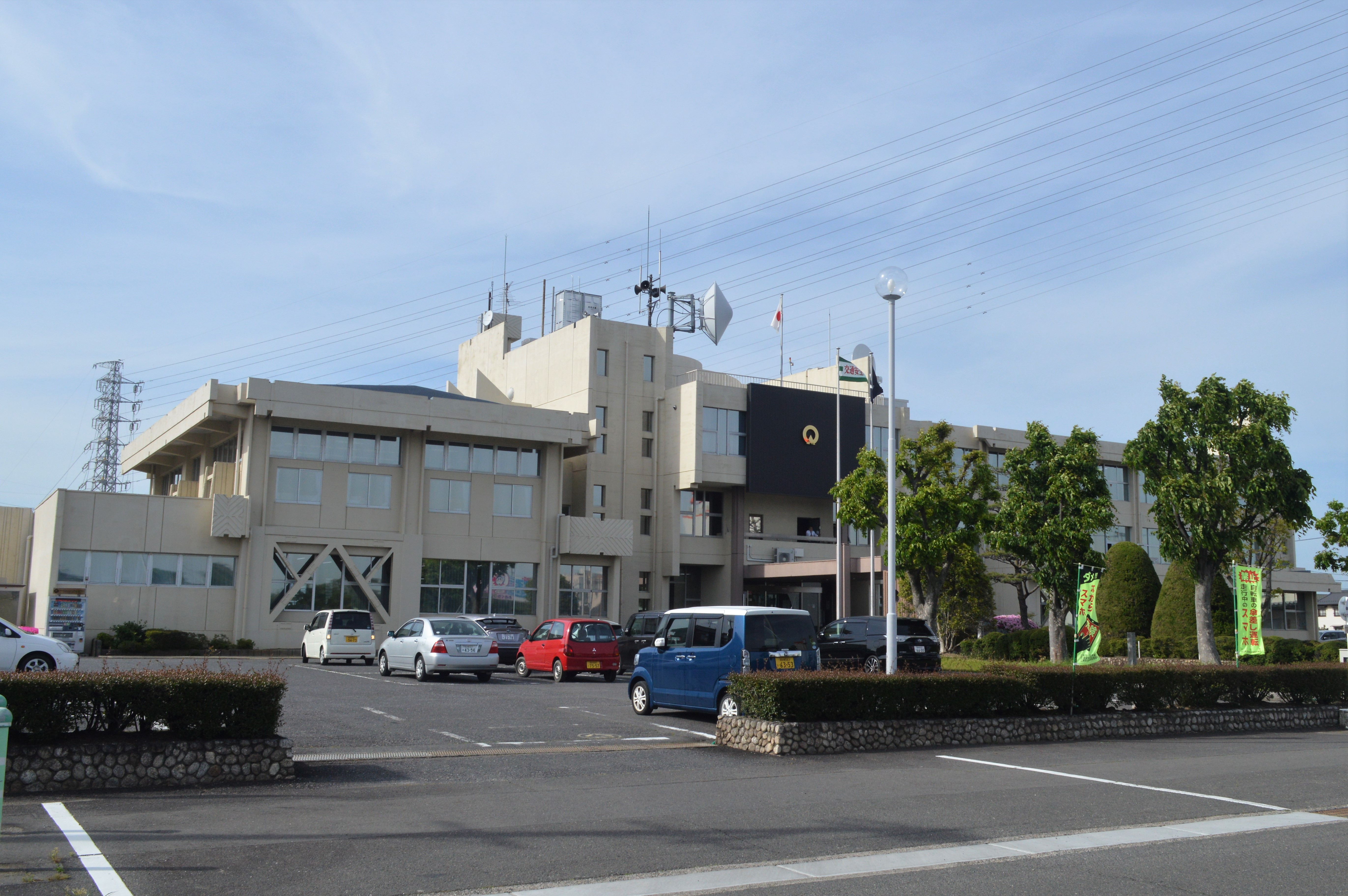 Oguchi Town Hall in Aichi prefecture, Japan.